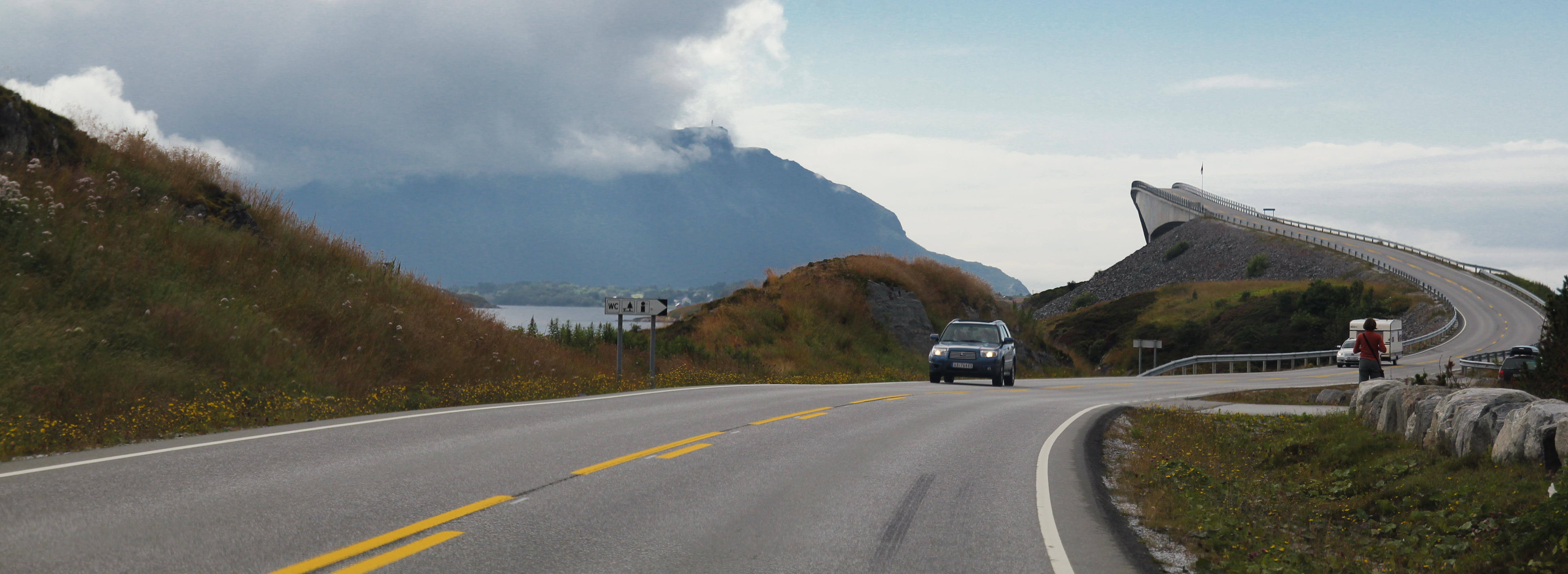 The Atlantic Road